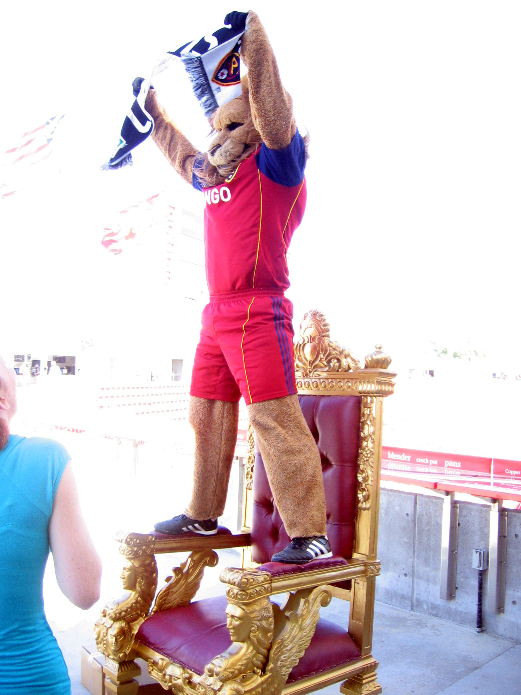 On his throne, Leo the Lion, mascot of Real Salt Lake (RSL) football club, Major League Soccer (MLS), at a "Meet the Players" event. Held at Rio Tinto Stadium in Sandy, Utah, USA, on 21 Aug 2010.